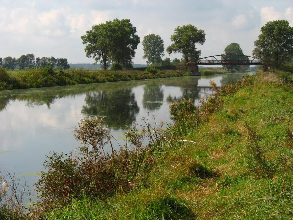 Bydgoski Channel at Pawlowek.